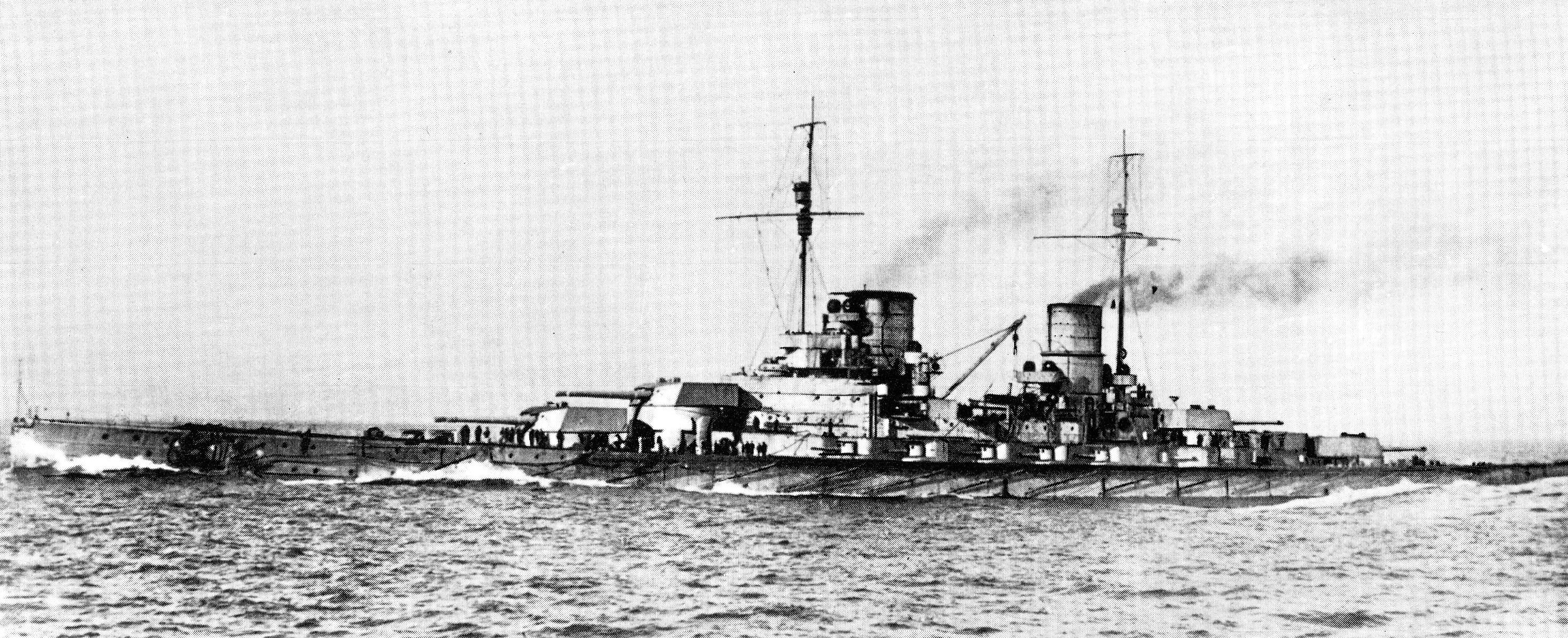 German battlecruiser SMS LÜTZOW